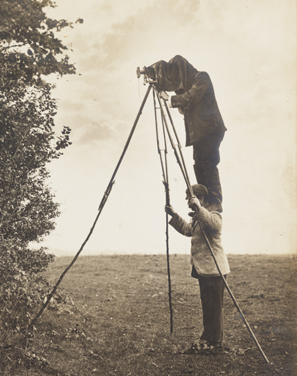 Creator: Richard Kearton (1862 - 1928) and Cherry Kearton (1871 - 1940) Date: 1900 Material: Paper Collection: The Royal Photographic Society Collection at the National Media Museum Inventory no: 2003-5001/2/20536 Blog post: Snappy 5th birthday Flickr Commons On our blog: Sir David Attenborough and Cherry Kearton. This photograph came from the Nature Conservancy Council Collection. Richard and Cherry Kearton introduced the 'hide' method of bird-watching and photography. Cherry stands on Richard's shoulders to take a picture. The brothers were pioneers of wildlife photography, producing their book 'With Nature and a Camera' illustrated with a 160 photographs in 1899. Richard Kearton (1862 - 1928) moved to London from Yorkshire in 1882 to work for Cassell's publishing house; worked with his brother Cherry Kearton, their book 'With Nature and a Camera', was published in London by Cassell & Co in 1899, written by Richard with photographs by Cherry. Cherry Kearton (1871 - 1940) was a photographer and documentary film maker of animals and nature; worked with his brother Richard Kearton, their book 'With Nature and a Camera', was published in London by Cassell & Co in 1899, written by Richard with photographs by Cherry; film director; set up his own film company producing natural history and expedition films.